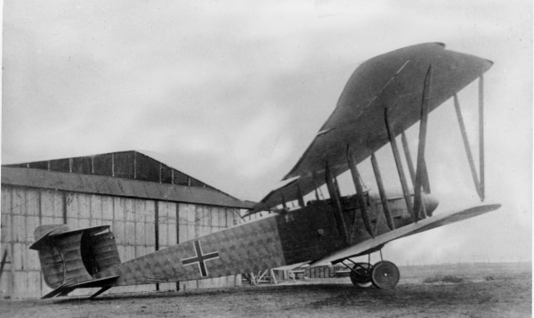 PictionID:43638683 - Catalog:16_004623 - Title:Linke-Hofmann R.II, the largest single-propeller aircraft ever built and most probably never to be beaten!! Nowarra photo - Filename:16_004623.TIF - - - - - - - Image from the Ray Wagner Collection. Ray Wagner was Archivist at the San Diego Air and Space Museum for several years and is an author of several books on aviation --- ---Please Tag these images so that the information can be permanently stored with the digital file.---Repository: San Diego Air and Space Museum